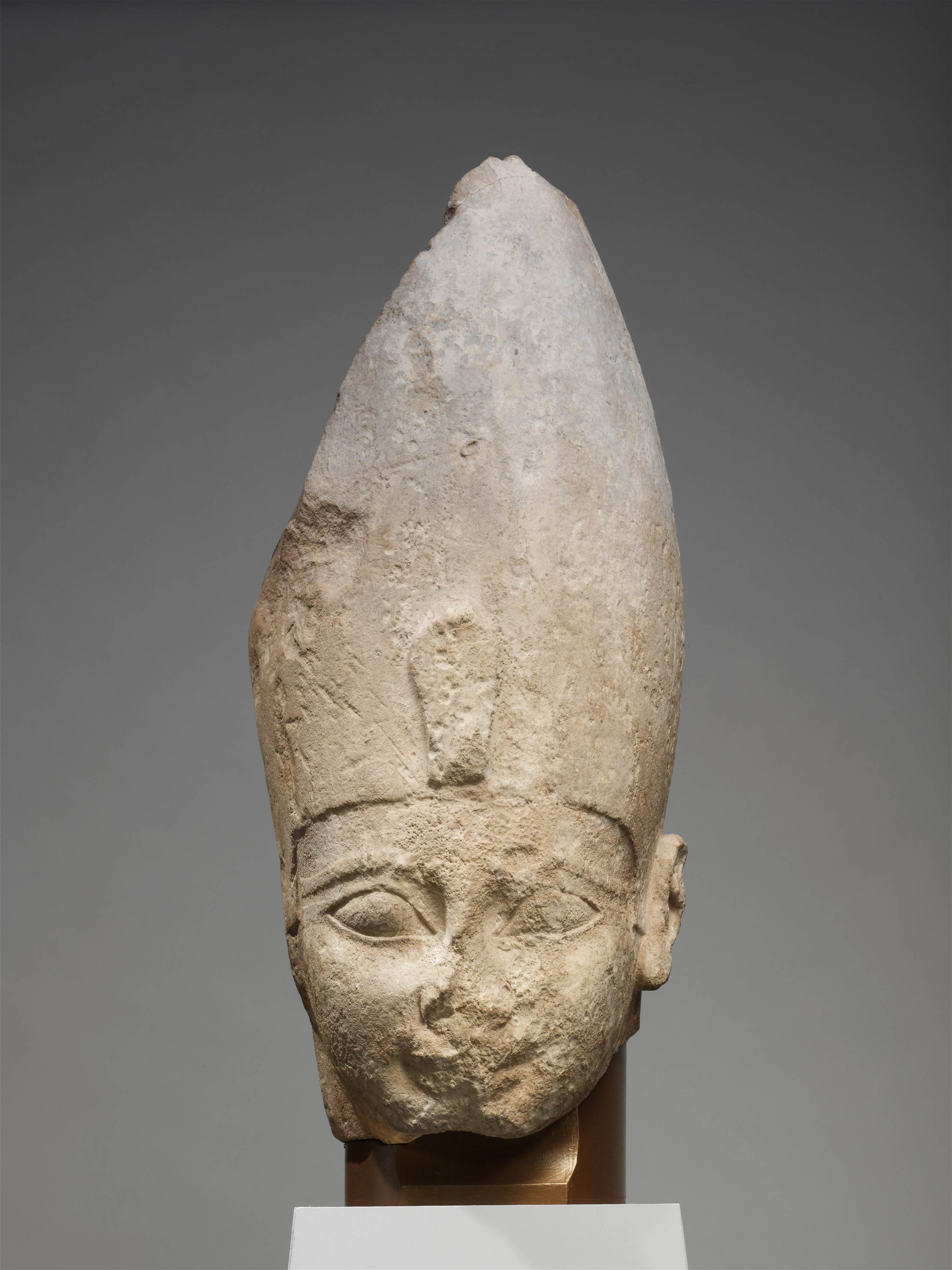 Head, King Ahmose